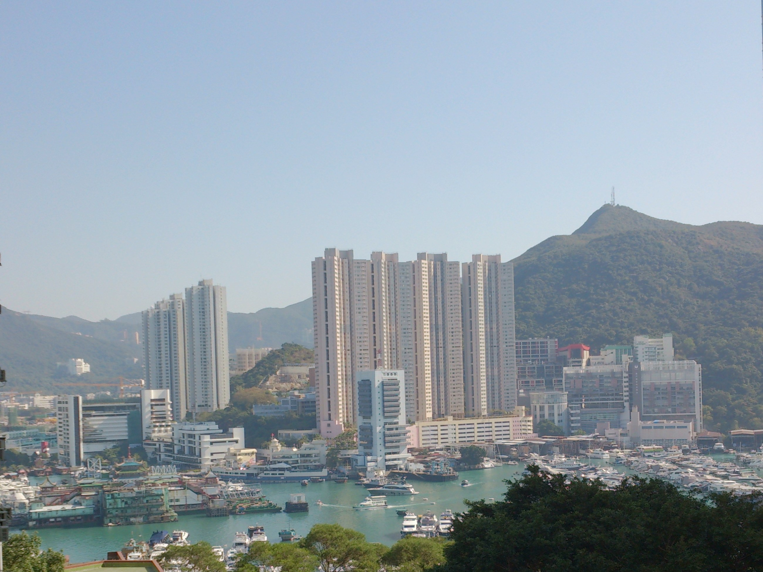 Shum Wan viewed from Lei Tung